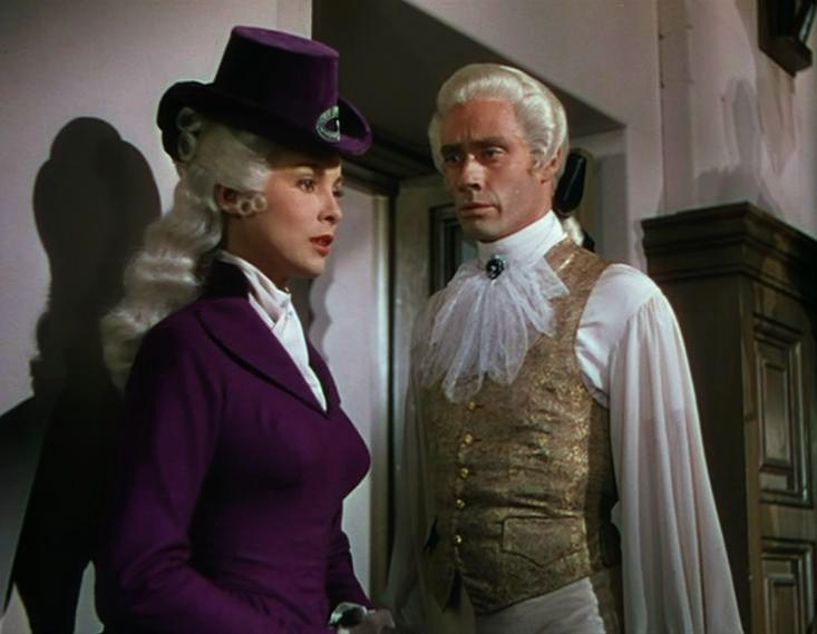 Janet Leigh & Mel Ferrer in Scaramouche - trailer (cropped screenshot)